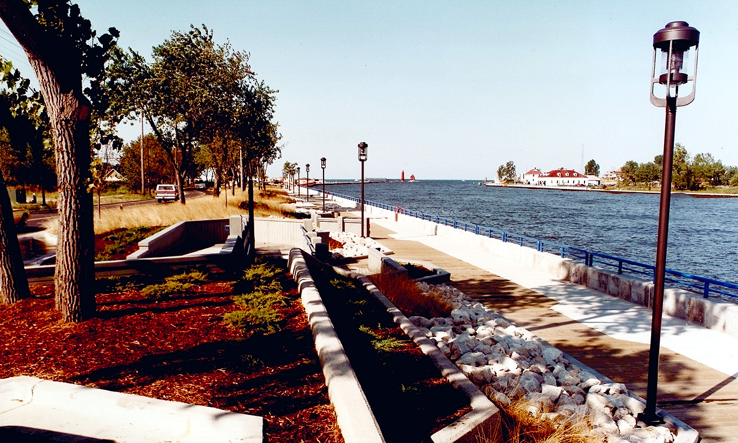 The entrance to the harbor at Grand Haven, Michigan, USA. The harbor lighthouse is visible in the distance.